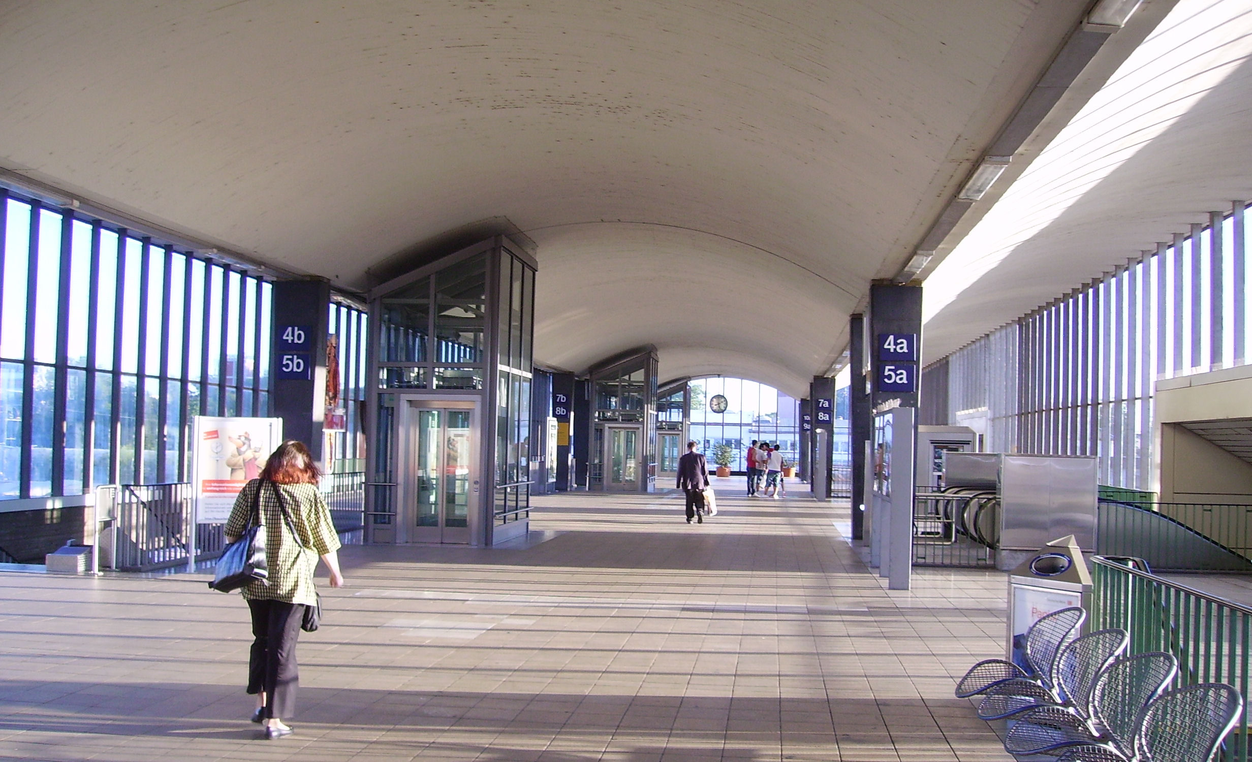 train station of Heidelberg